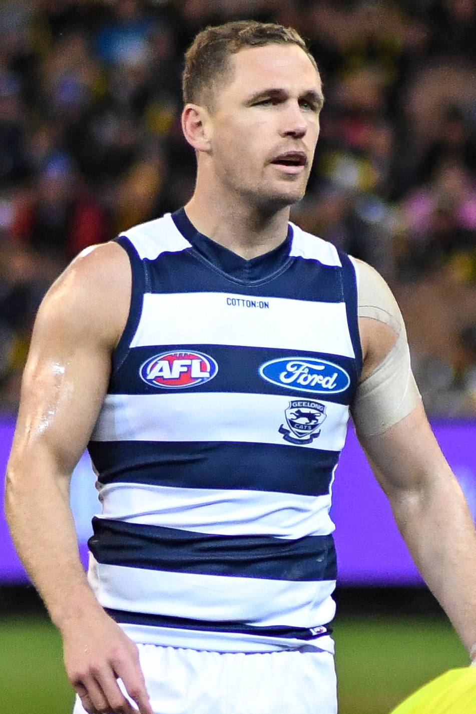 Joel Selwood of Geelong during the 2018 AFL round 20 match between Richmond and Geelong at the Melbourne Cricket Ground on Friday, 3 August 2018 in Melbourne, Victoria.